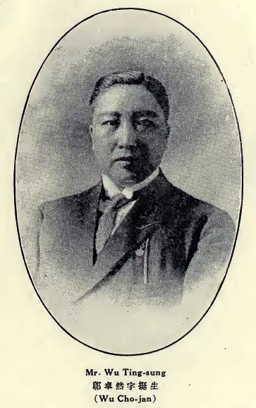 Wu Zhuoran (1877-1935)